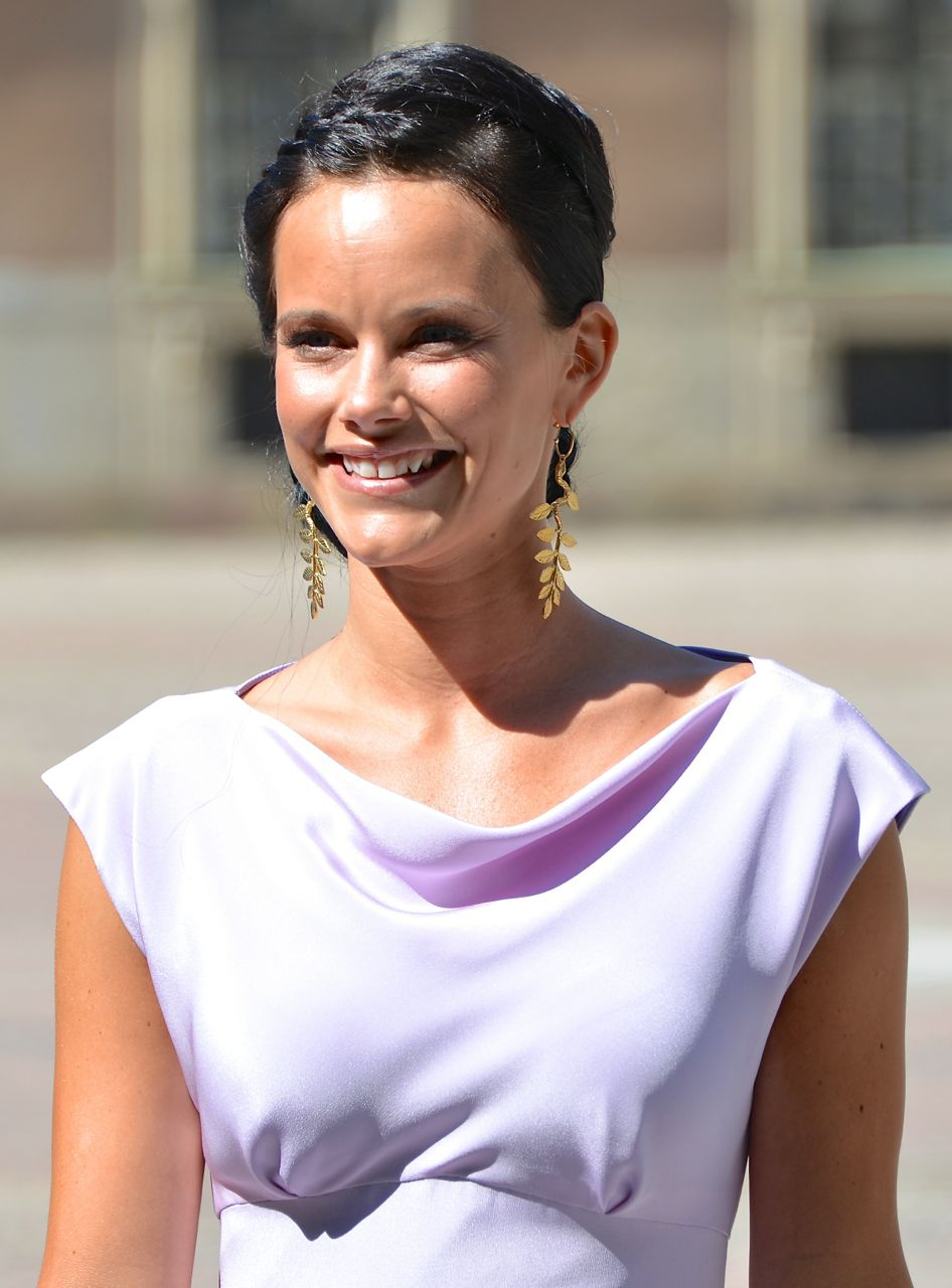 Sofia Hellqvist on the way to the castle church at the Royal Palace in Stockholm before the wedding between Princess Madeleine and Christopher O'Neill June 8, 2013.